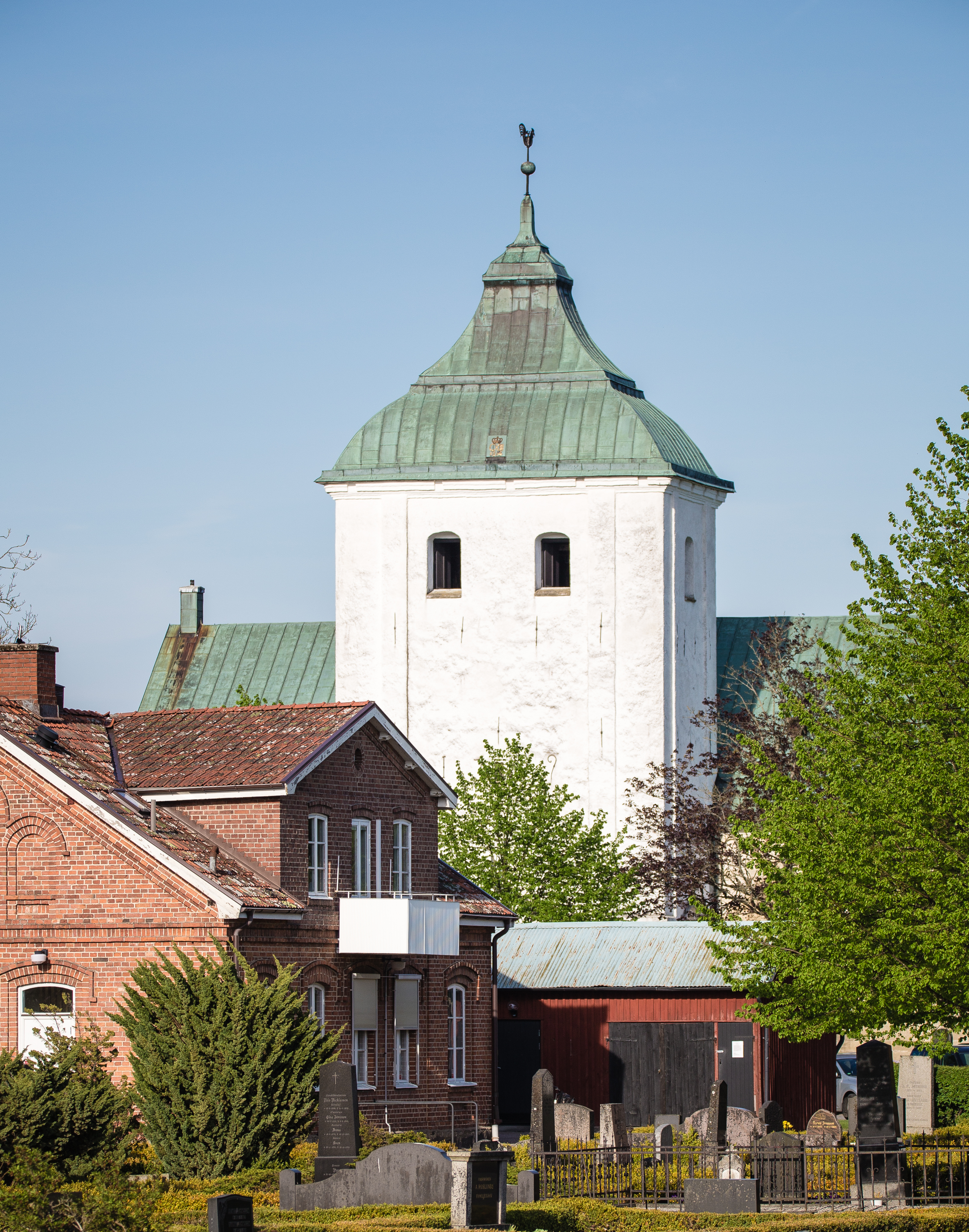 Parish office building and church in Vinslöv, Sweden